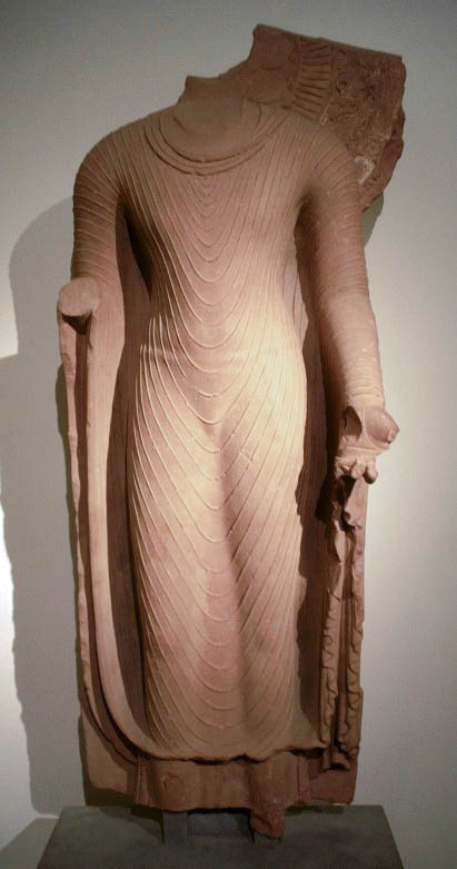 Buddha from the Gupta period, Musée Guimet, Paris. Personal photograph, 2004.